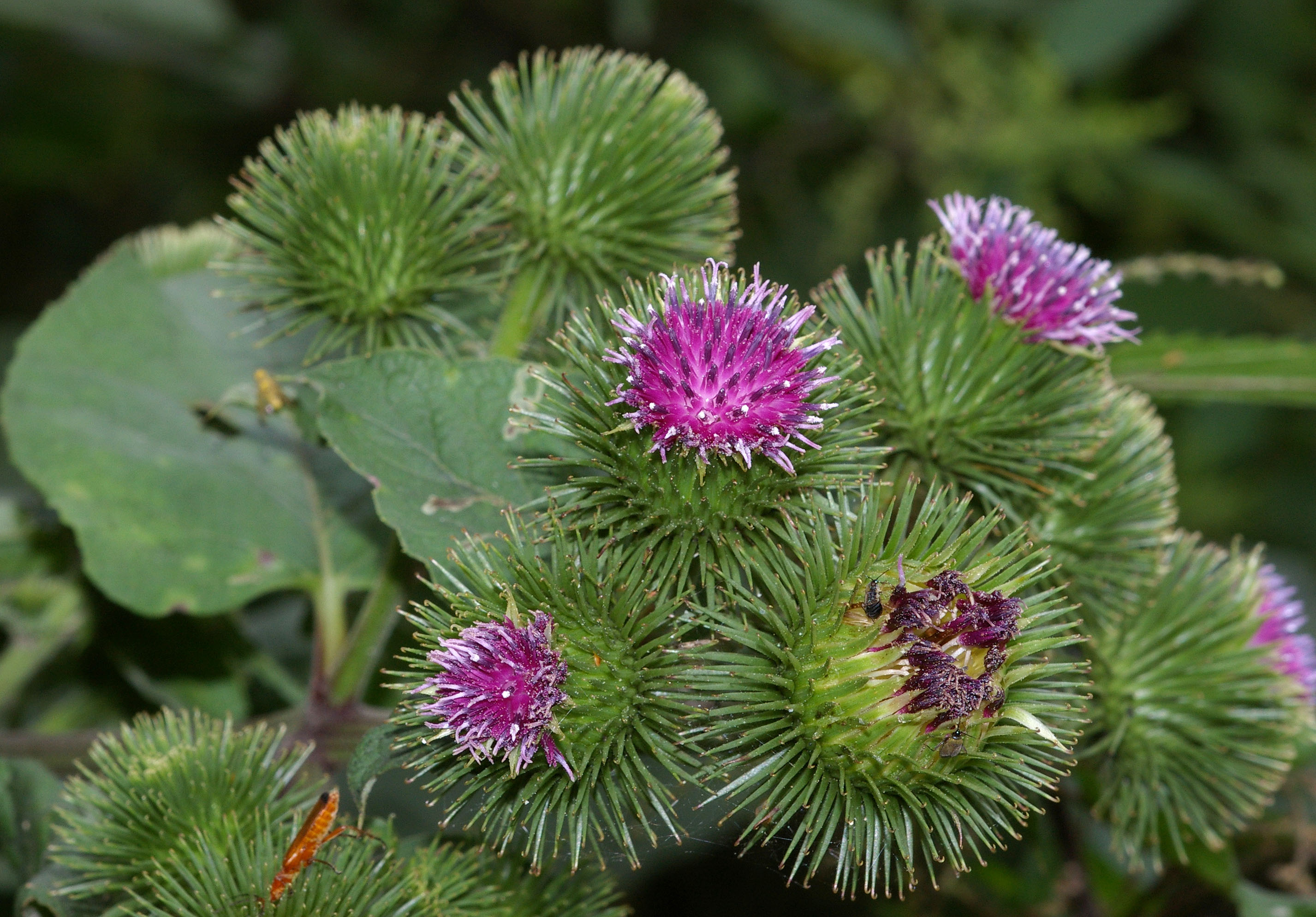 Inflorescence of Greater Burdock, Arctium lappa (Asteraceae).